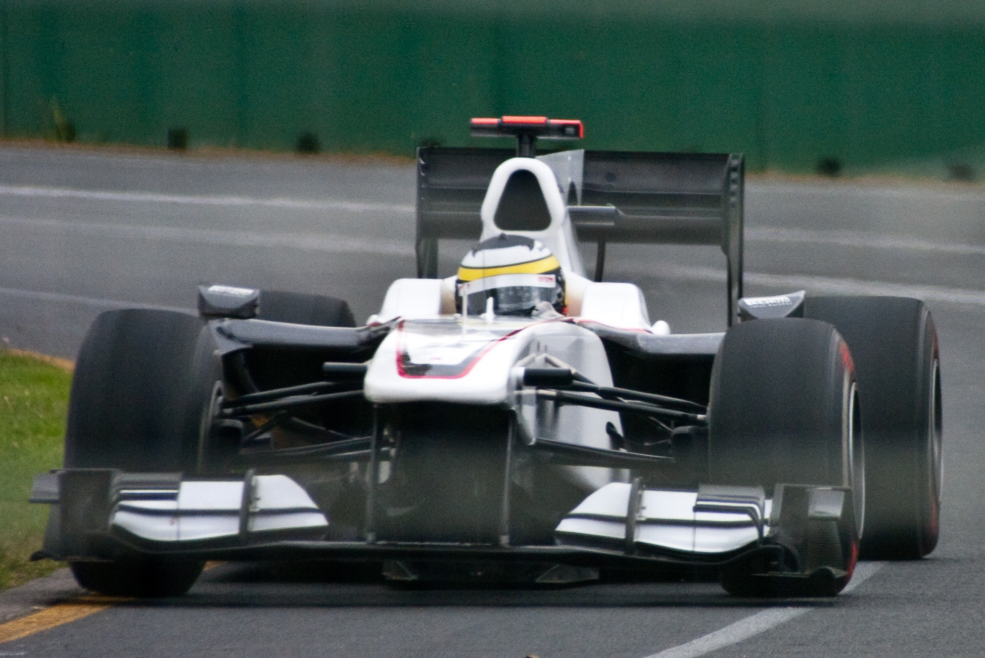 Pedro in Melbourne